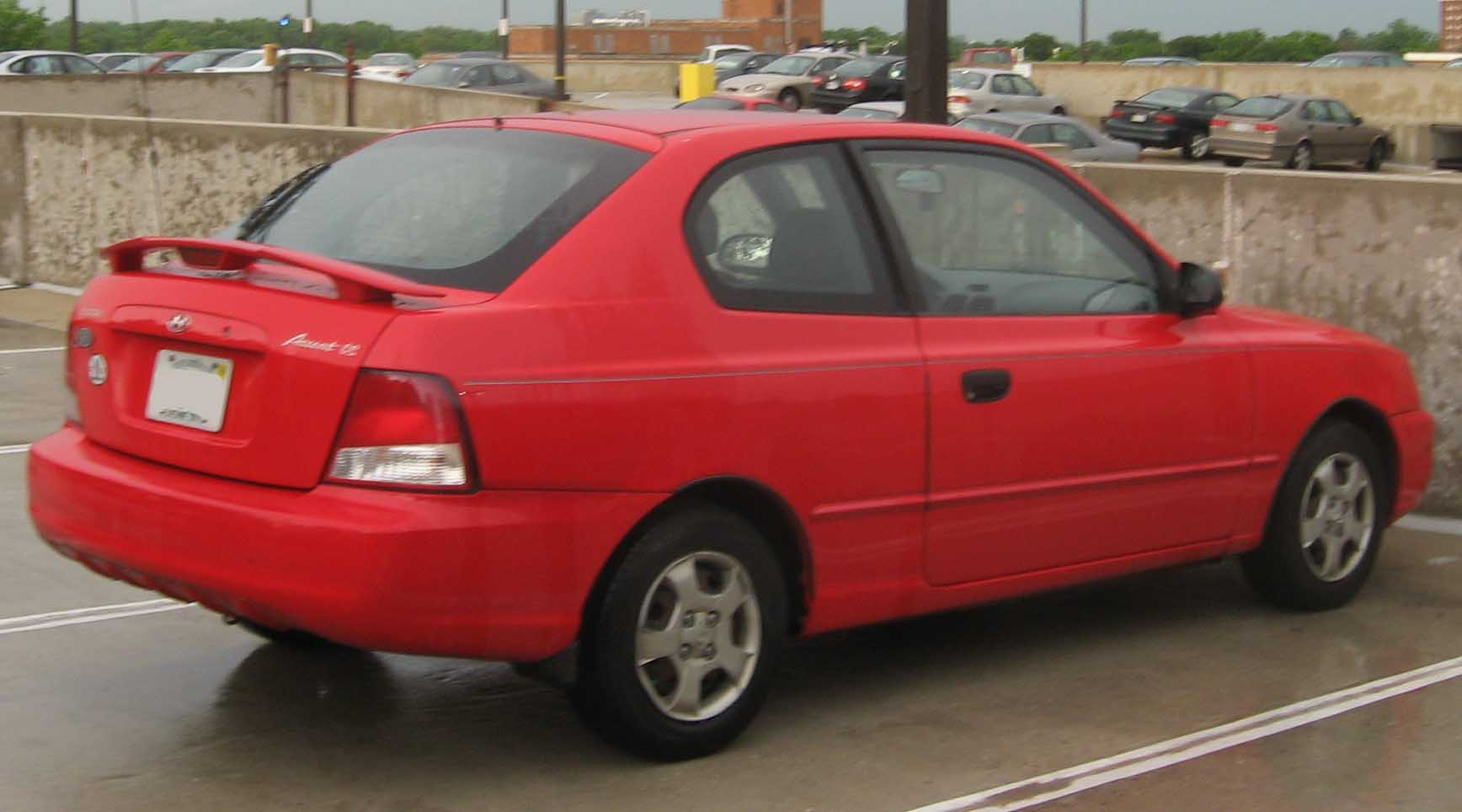 2000-2002 Hyundai Accent photographed in College Park, Maryland, USA.